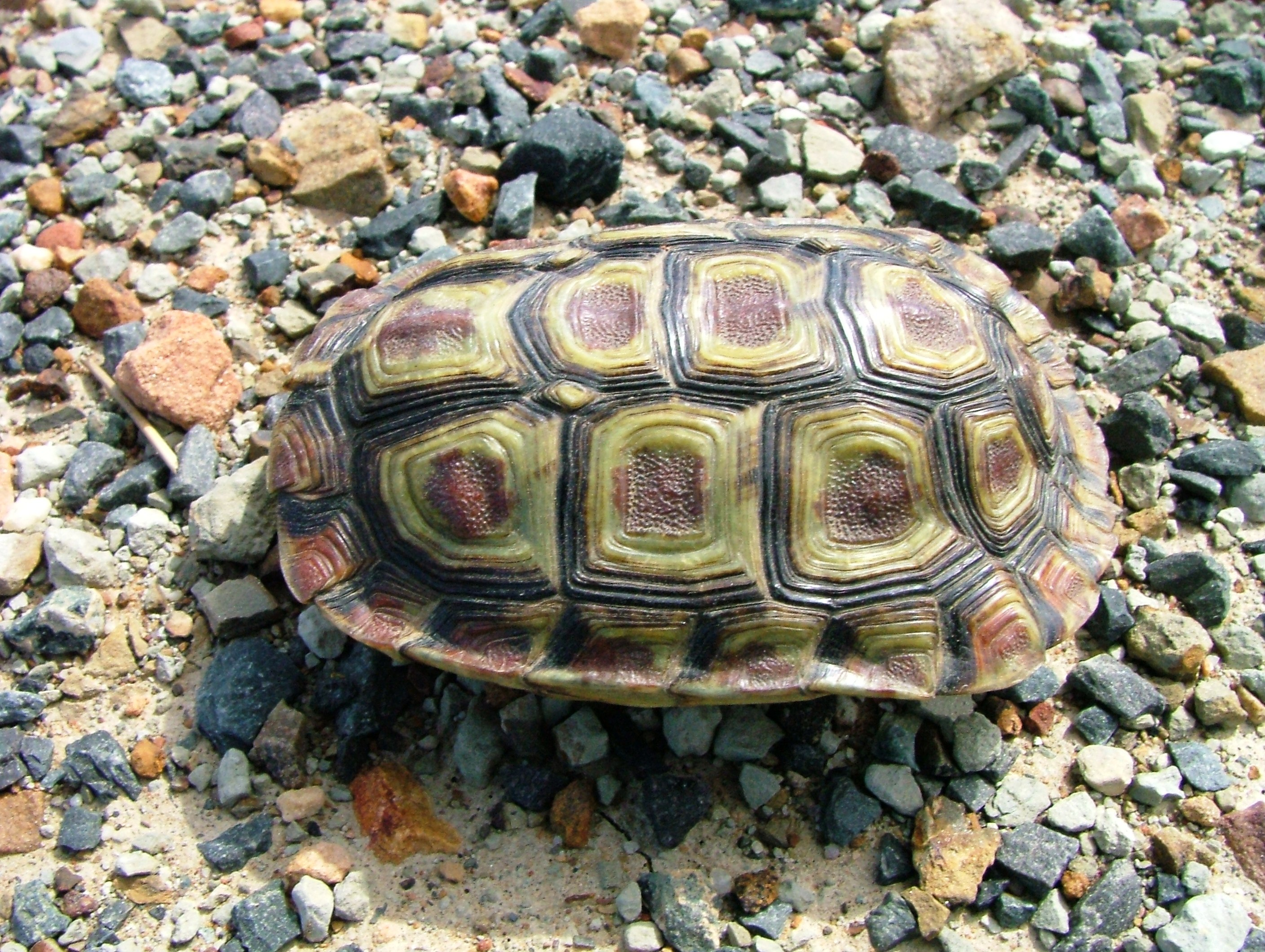 Homopus aereolatus. Padloper tortoise. Cape. South Africa.